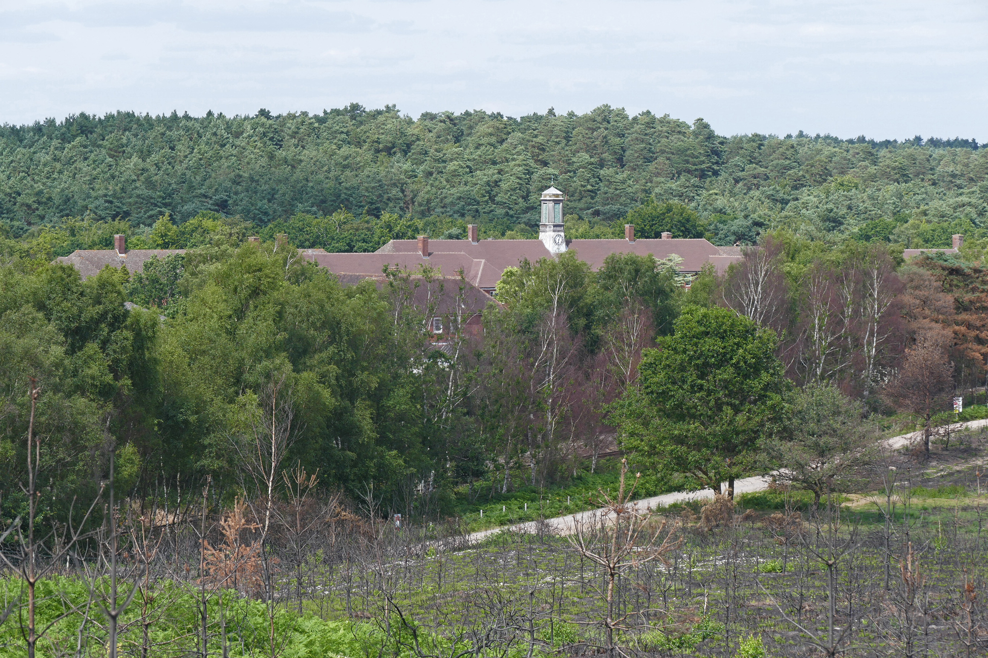 Keogh Barracks, Deepcut